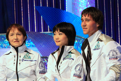 Tamara Moskvina, Yuko Kawaguchi and Alexander Smirnov at the 2009-2010 Grand Prix of Figure Skating Final.